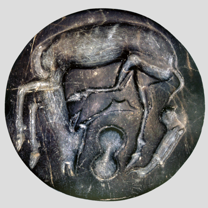 ancient minoan seal, original